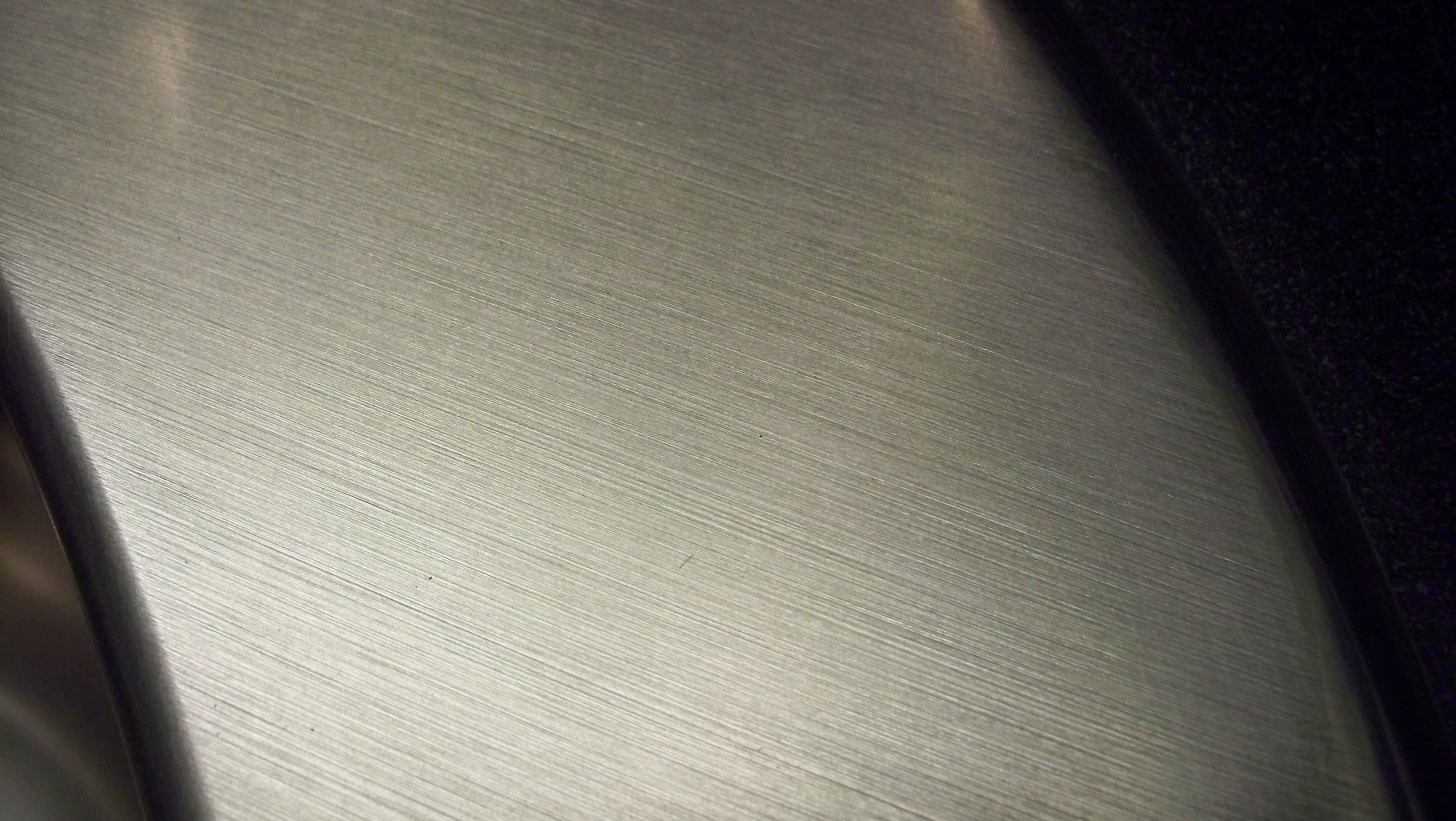 Brushed metal example (faucet)